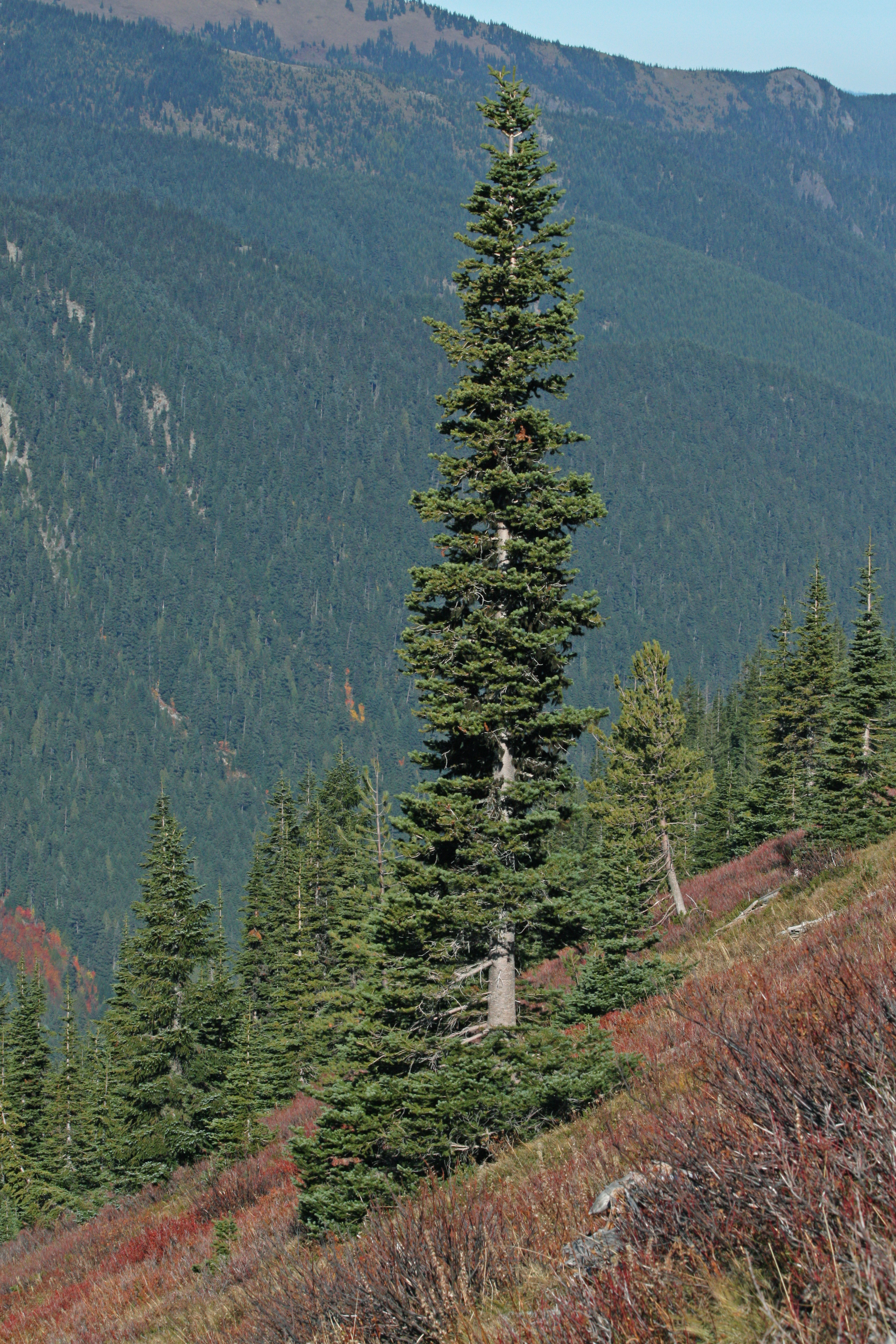 Subalpine Fir